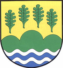 Coat of arms of the municipality Güby in Schleswig-Holstein, Germany.